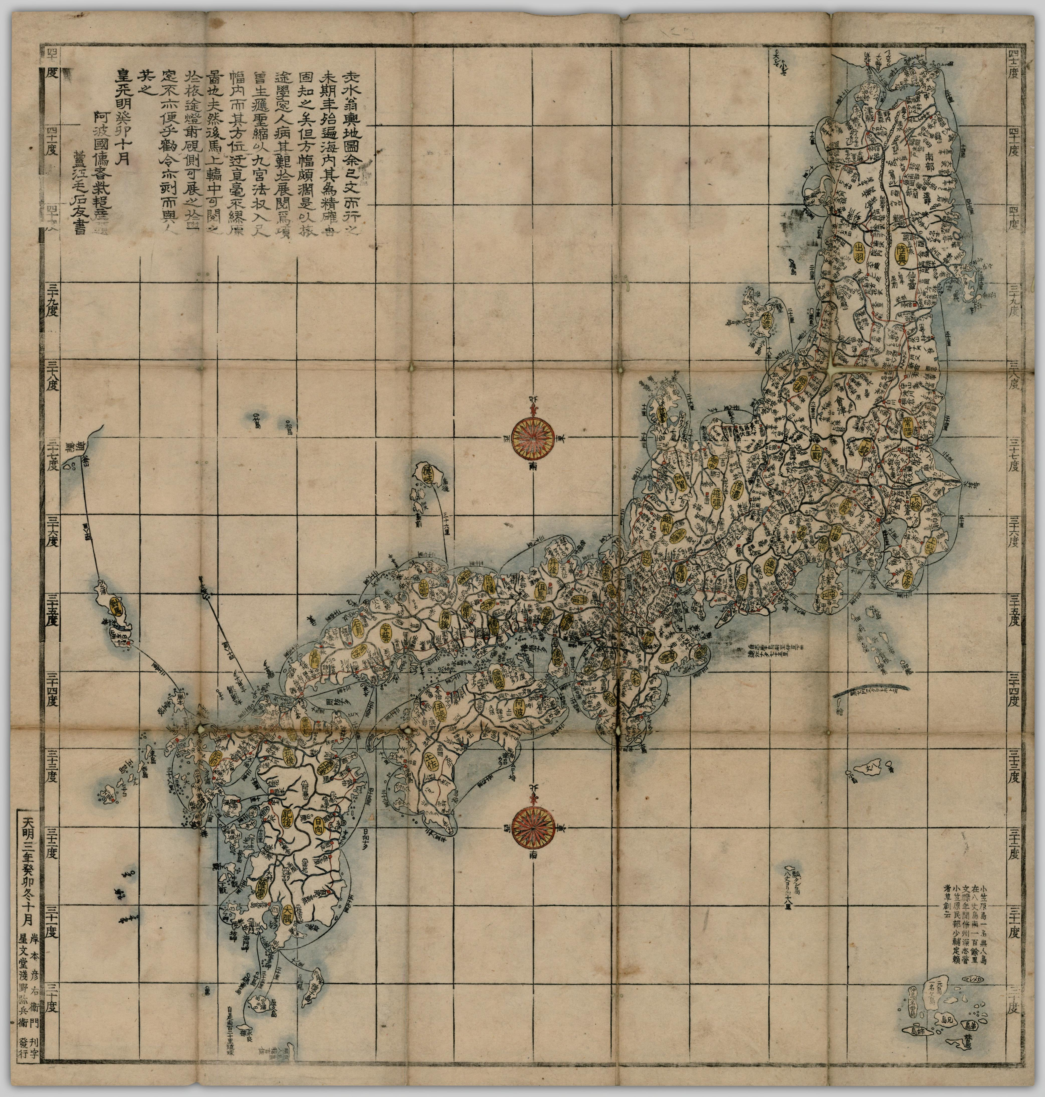 digitized item